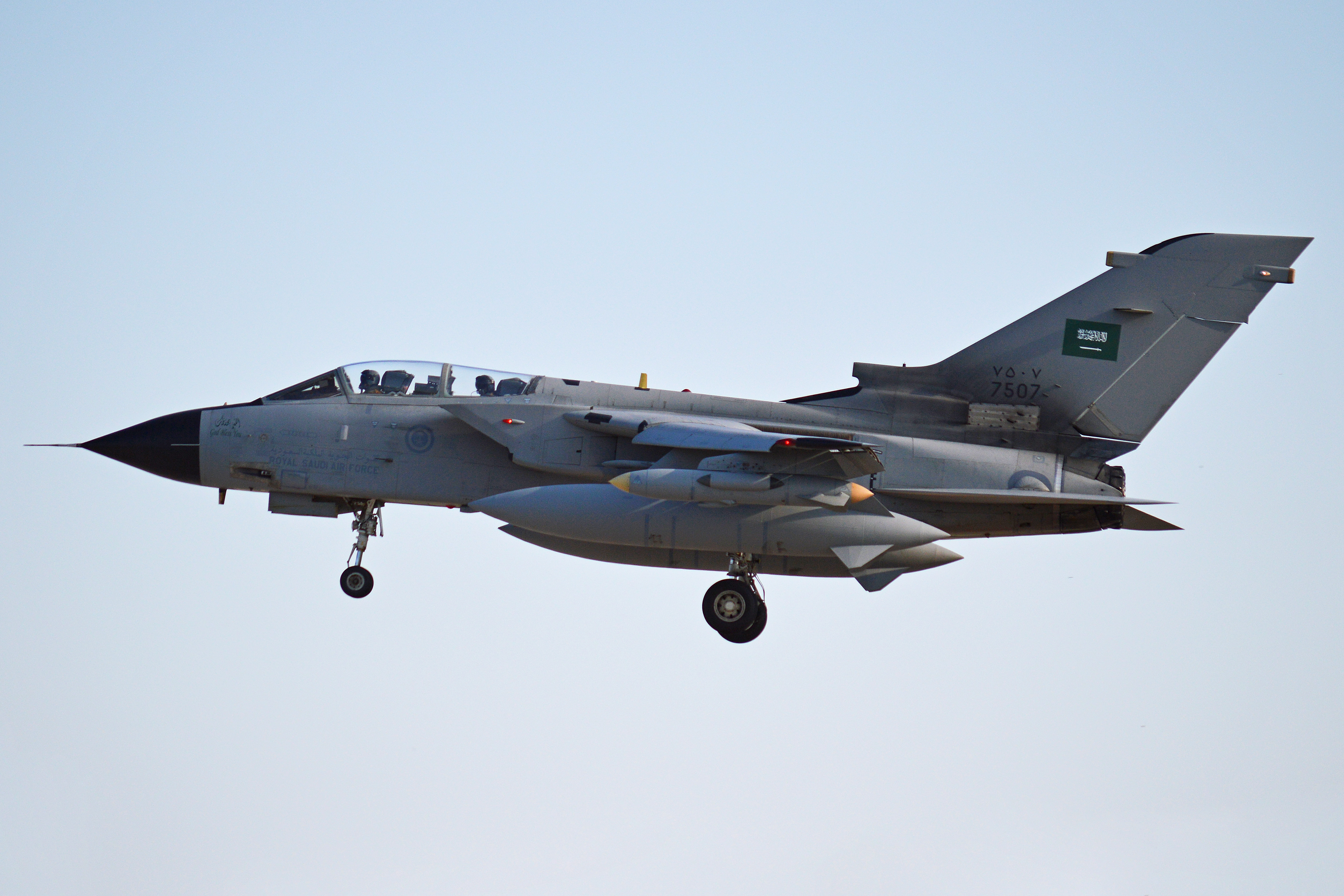 Operated by 75sqn Royal Saudi AF. Seen arriving to begin a three week deployment operating with Tornados from 2(AC)sqn RAF. c/n 949, l/n CS044 / 3490. RAF Coningsby. 27-8-2013